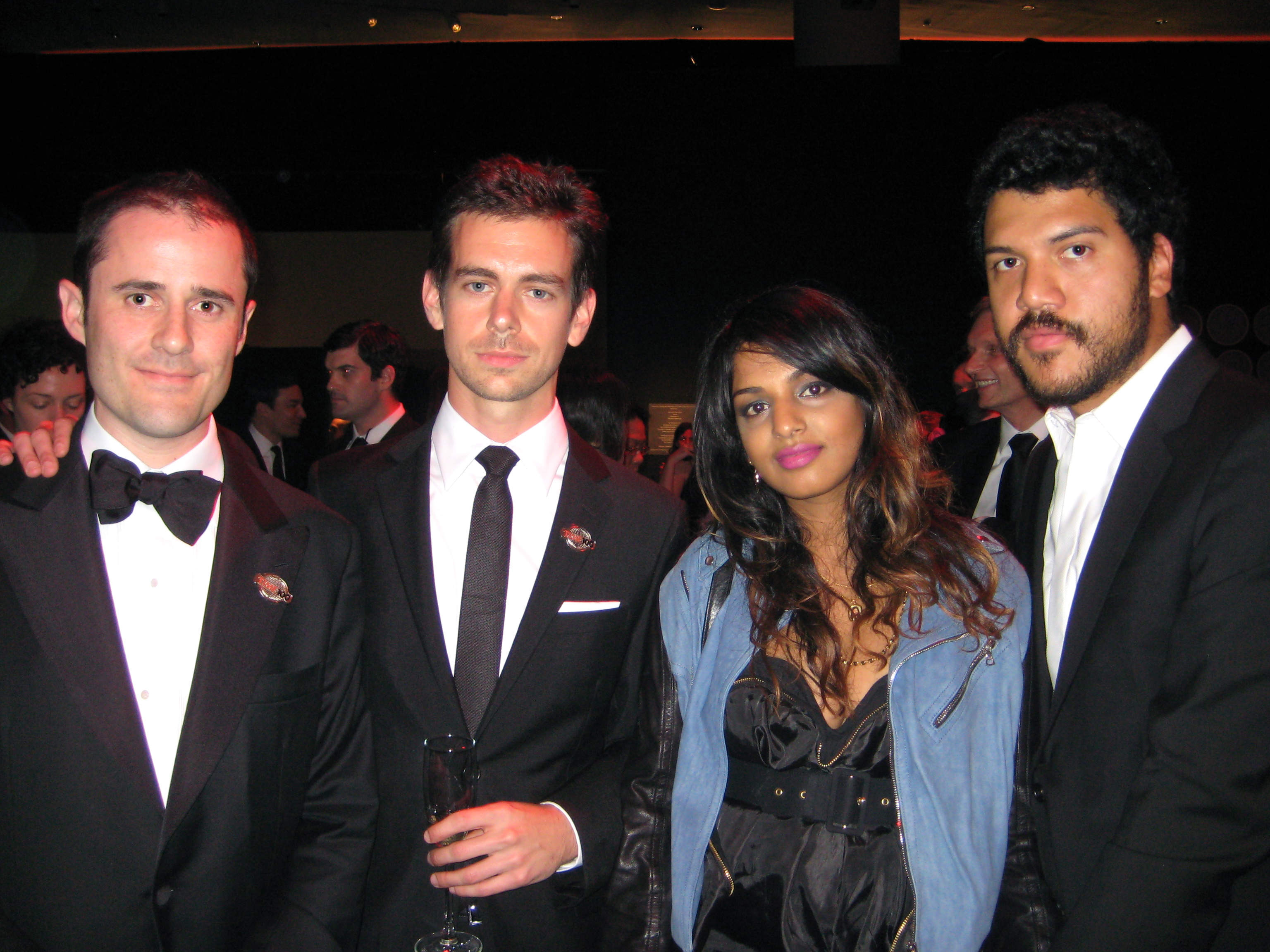 Left to right: Twitter-founders Evan Williams and Jack Dorsey, musician M.I.A., and her partner Benjamin Bronfman